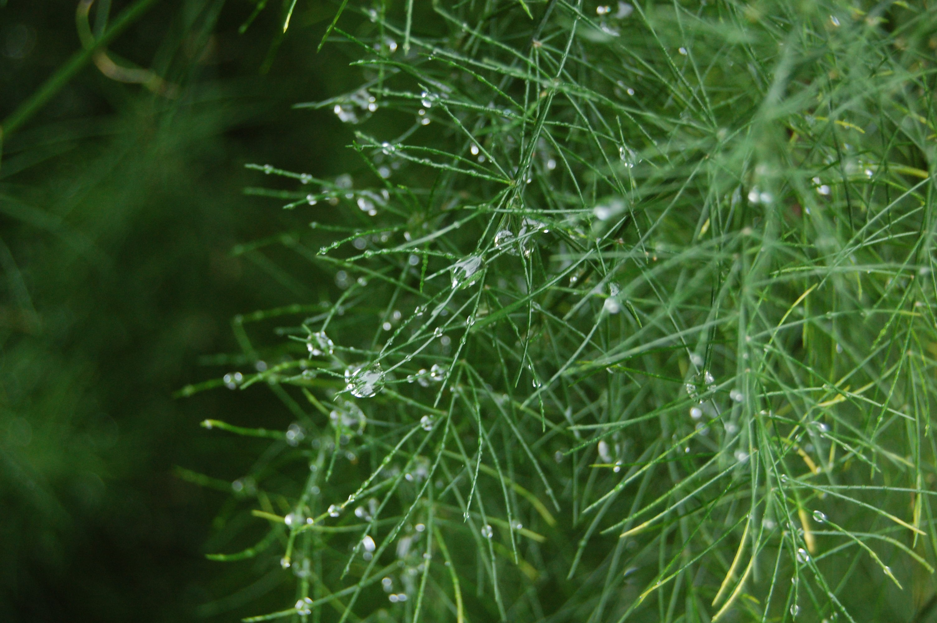 Asparagus officinalis with dewdrops.